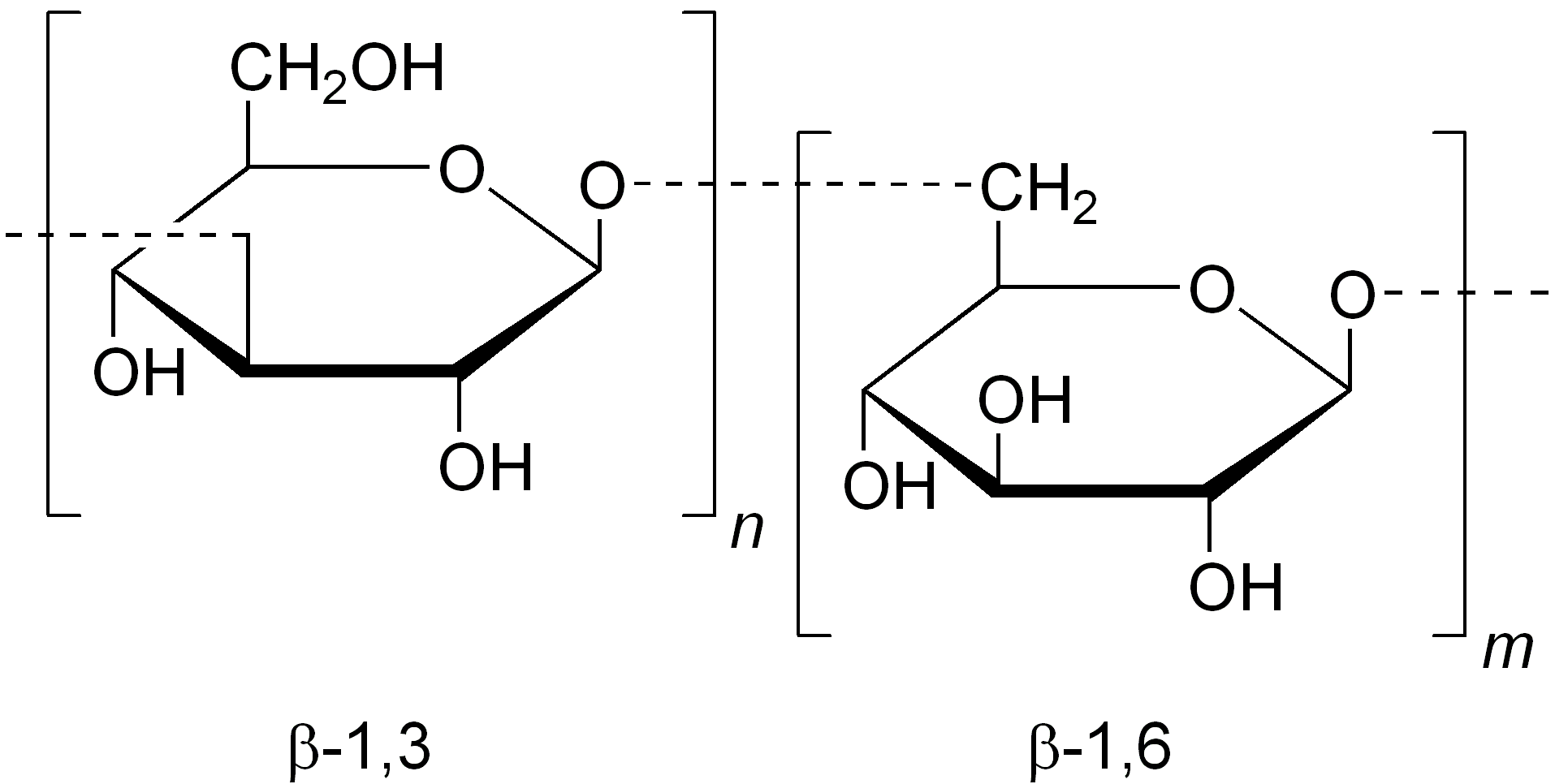 chemcical structure of beta-1,3-1,6-glucan (laminarin, laminaran)